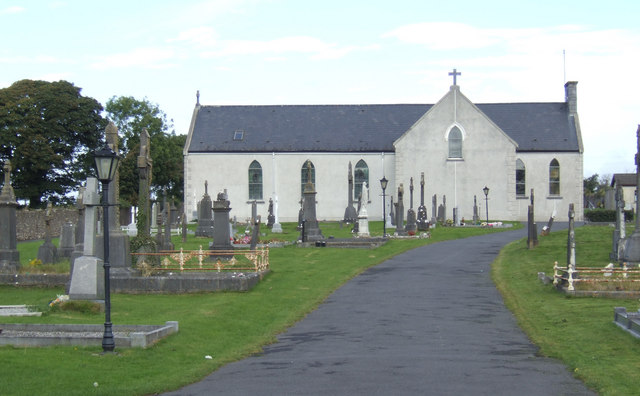 Slieveroe church, Co. Waterford. Exactly between the two pubs in the village; 571176 and 571182.